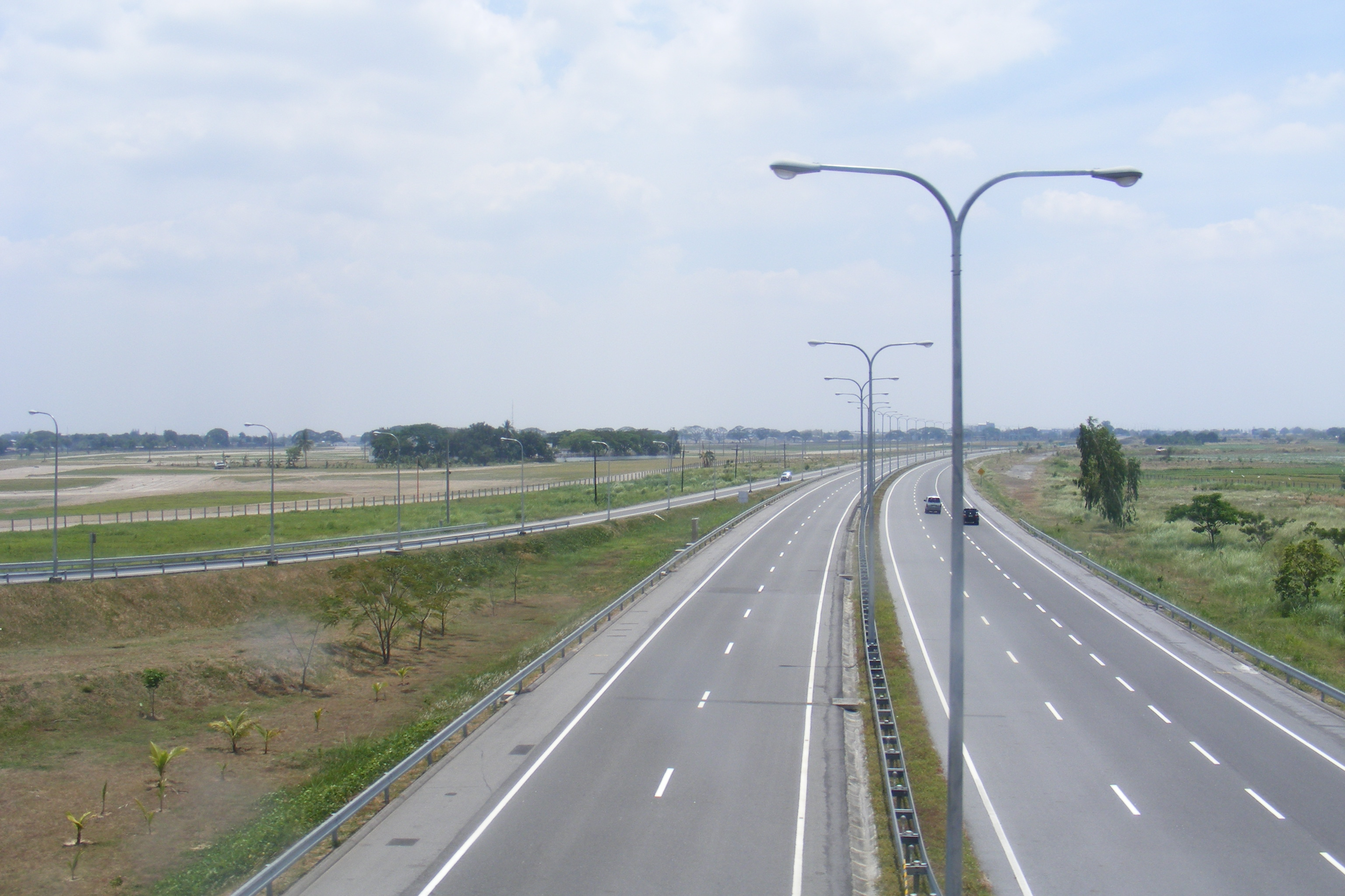 Subic–Clark–Tarlac Expressway as seen from Clark Interchange